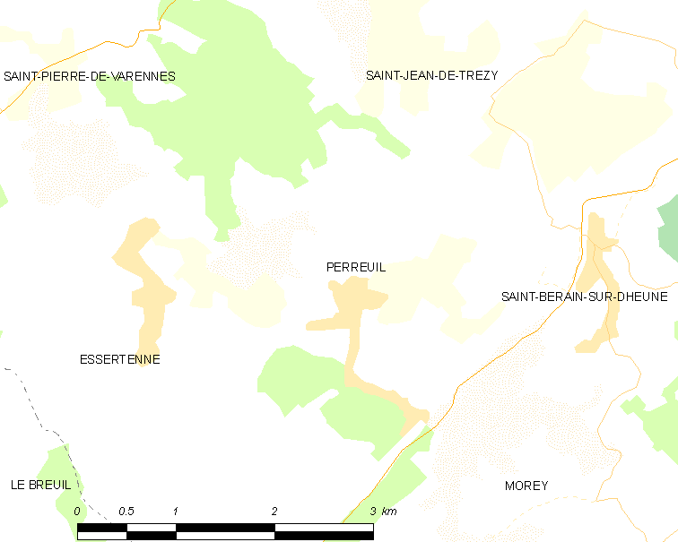 Map of French municipality